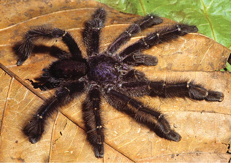 Avicularia purpurea male, southern form